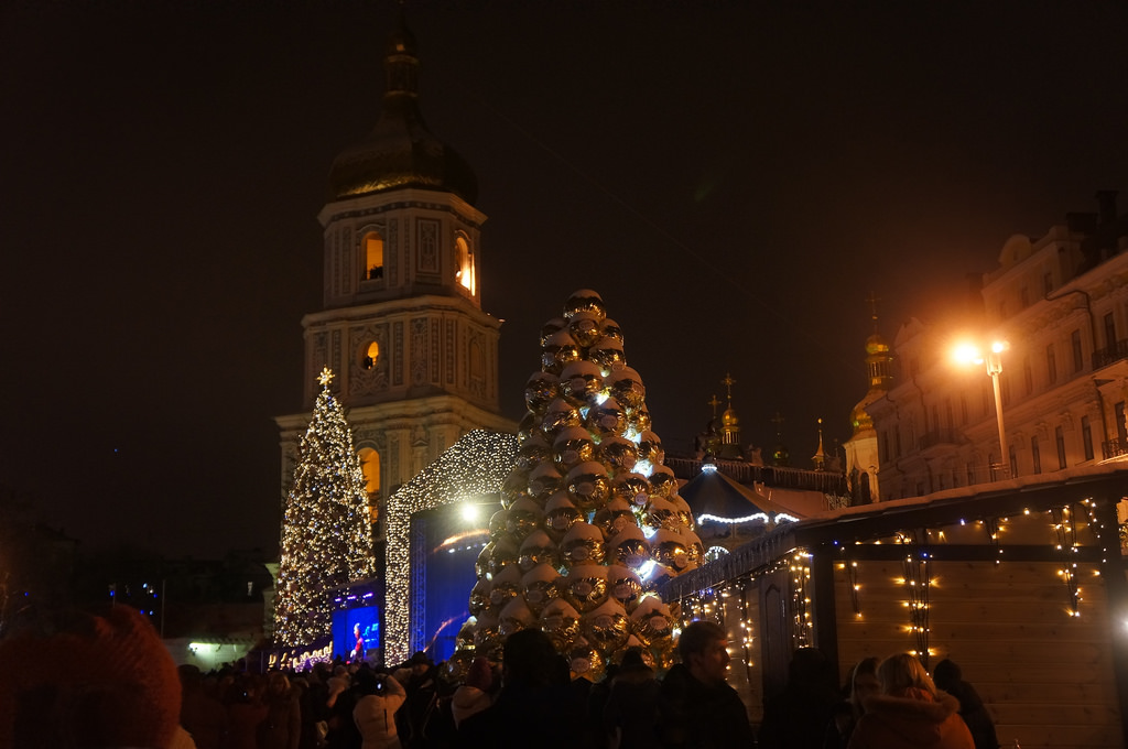 Christmas trees in front of St. Sophia Cathedral, Kyiv